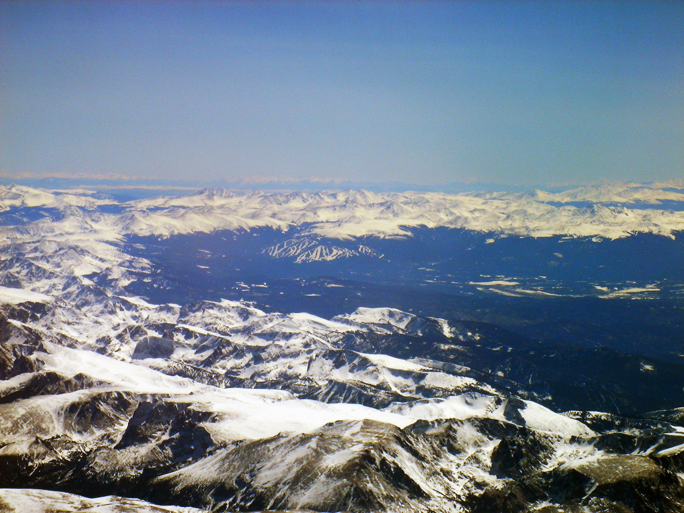 An aerial view of the Fraser Valley in Colorado, United States. Winter Park Ski Resort can be seen in the distance.